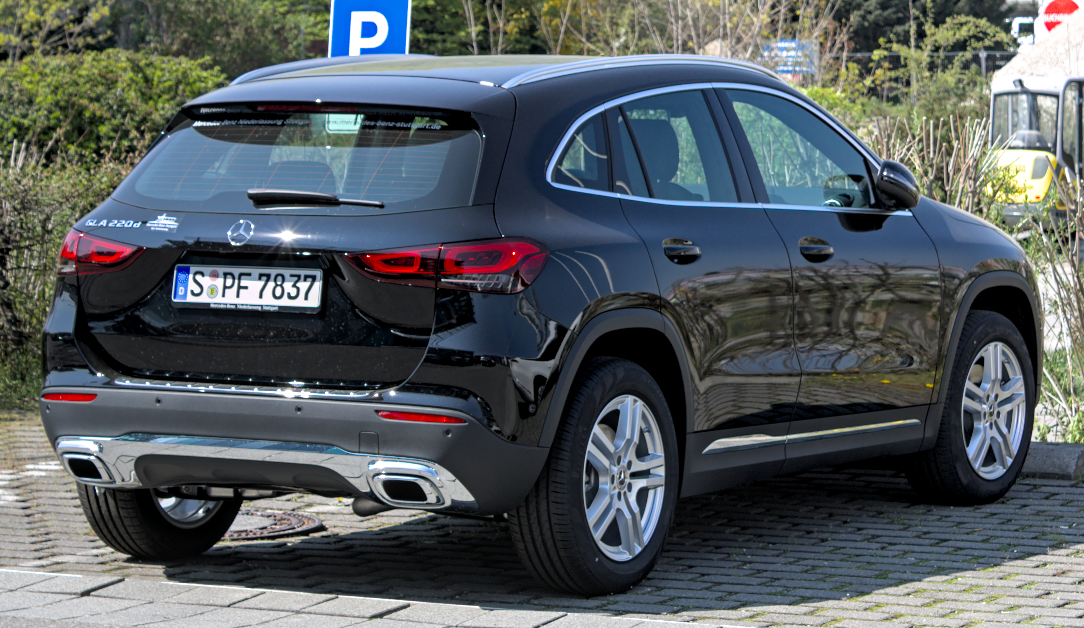 Mercedes-Benz_H247 in Stuttgart